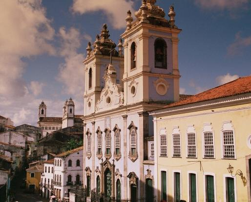 Photo of the historical center of Salvador (Bahia, Brazil), more known as "Pelourinho".